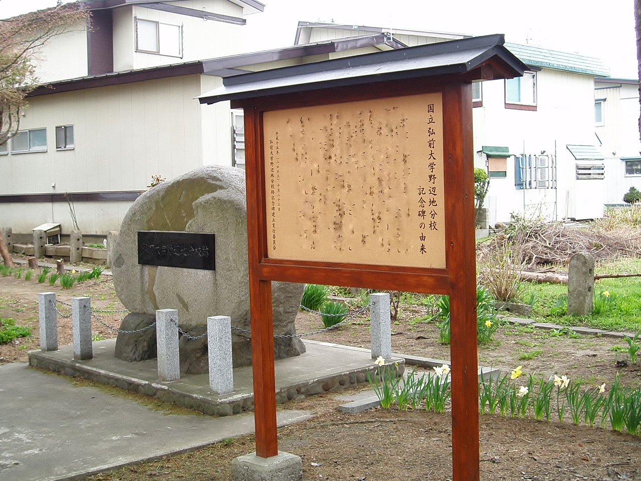 A monument of former Noheji Campus (1949 - 1960), Hirosaki University, located in Noheji, Aomori Prefecture, Japan. The explanation has been intentionally blurred by the uploader.